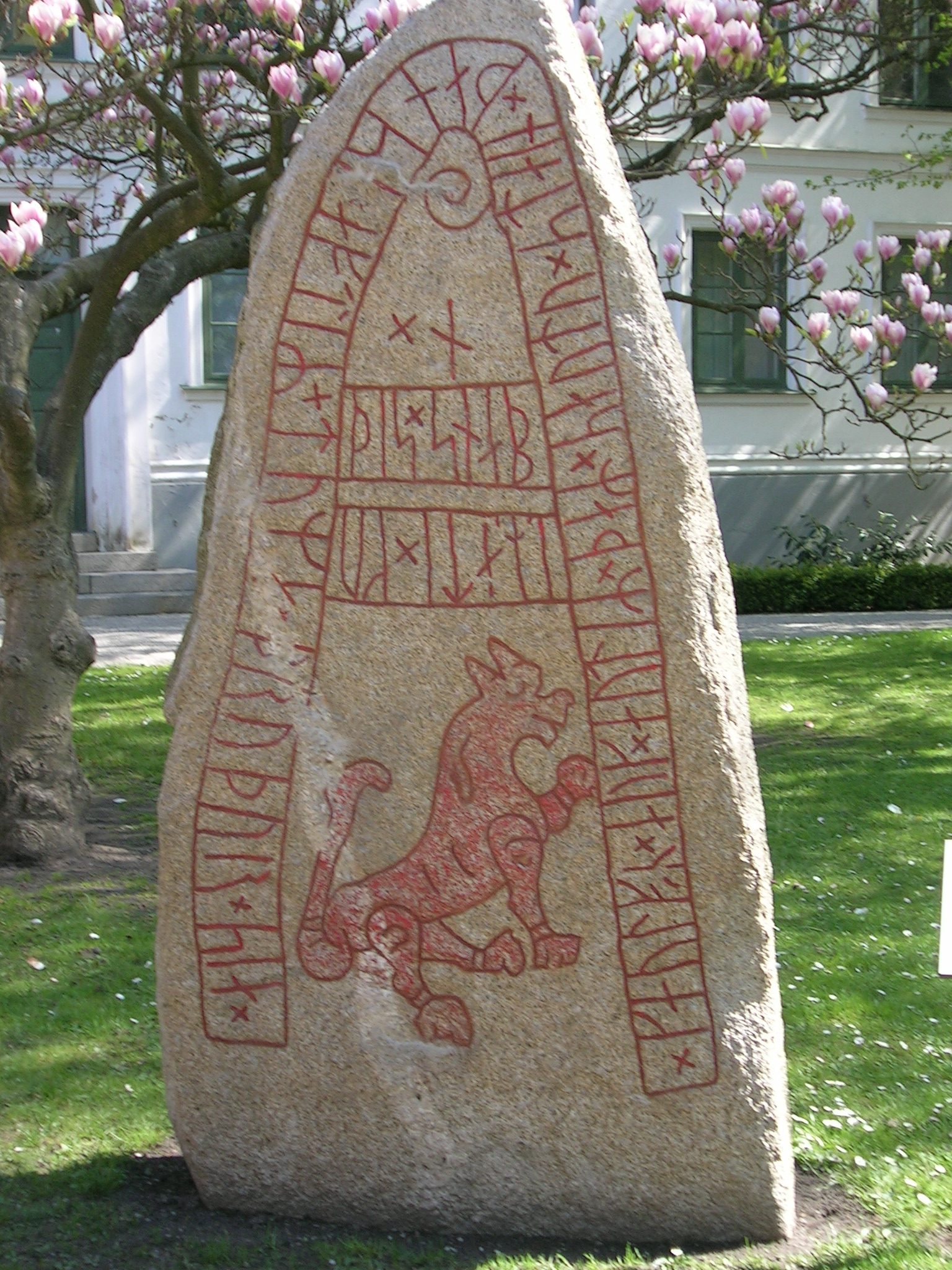 The runestone DR 280. The inscription reads × kaulfR × auk × autiR × þaR × sautu × stain × þans(i) × aftiR × tuma × bruþur × sia × ¶ i(R) ati × ku¶þis×snab¶n ×. In English "Káulfr(?)/Kalfr(?) and Autir, they placed this stone in memory of Tumi, their brother, who owned Guðissnapi."